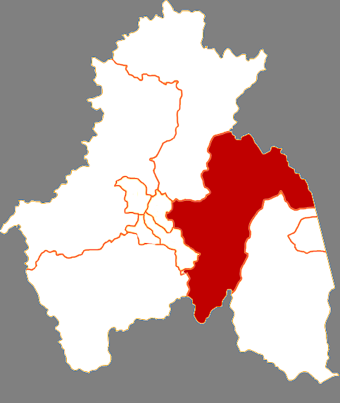 Location of Mulin County-level city in Mudanjiang City, China